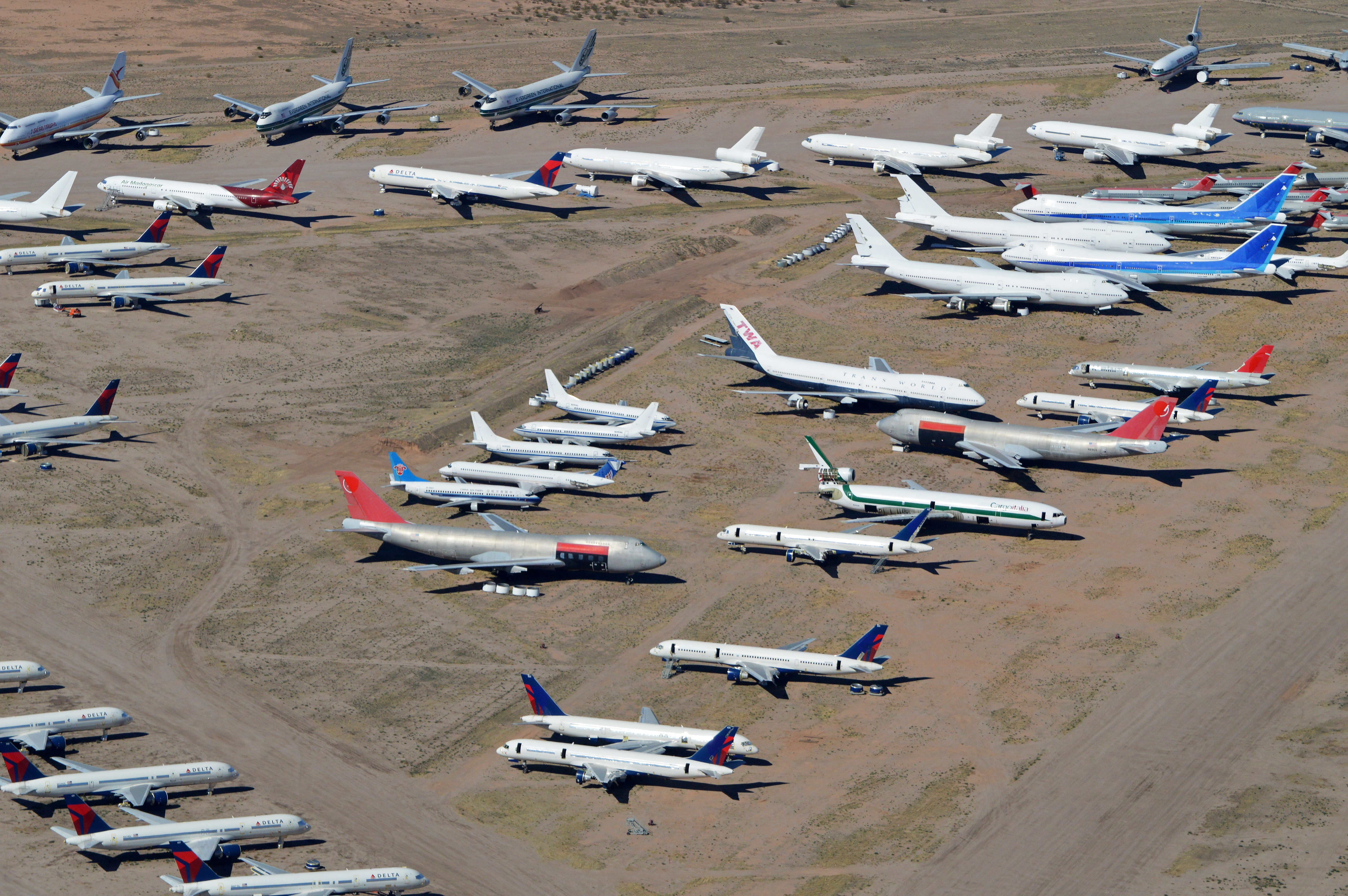 A general view of the central storage area at Pinal, showing Boeing 737, 747, 757 and 767s, with some Douglas DC10s in the background. Pinal Air Park, Marana. Arizona, USA. 09-2-2014